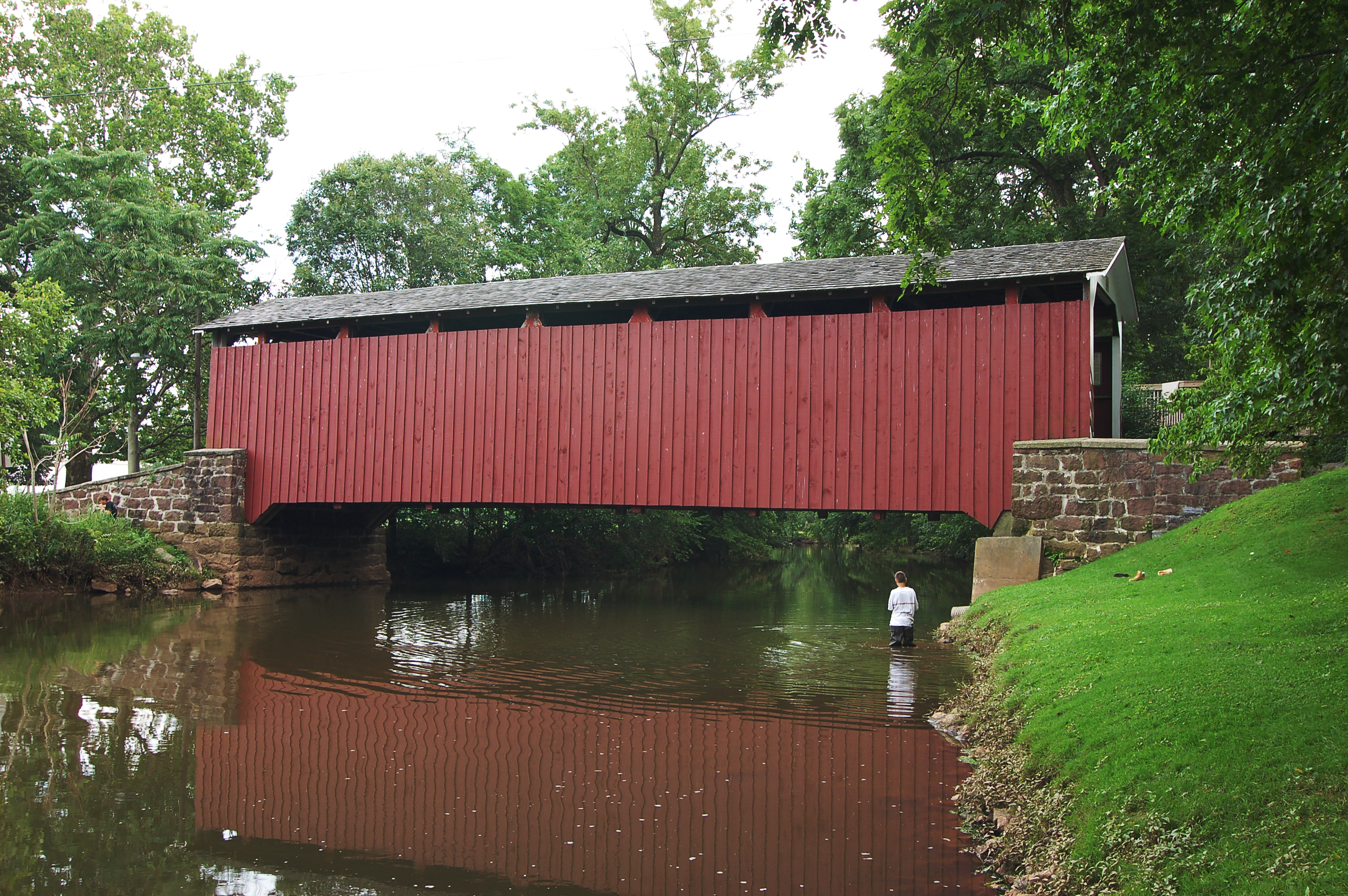 A photograph of full side of the Bucher's Mill Covered Bridge. The bridge is located in Lancaster County, Pennsylvania.